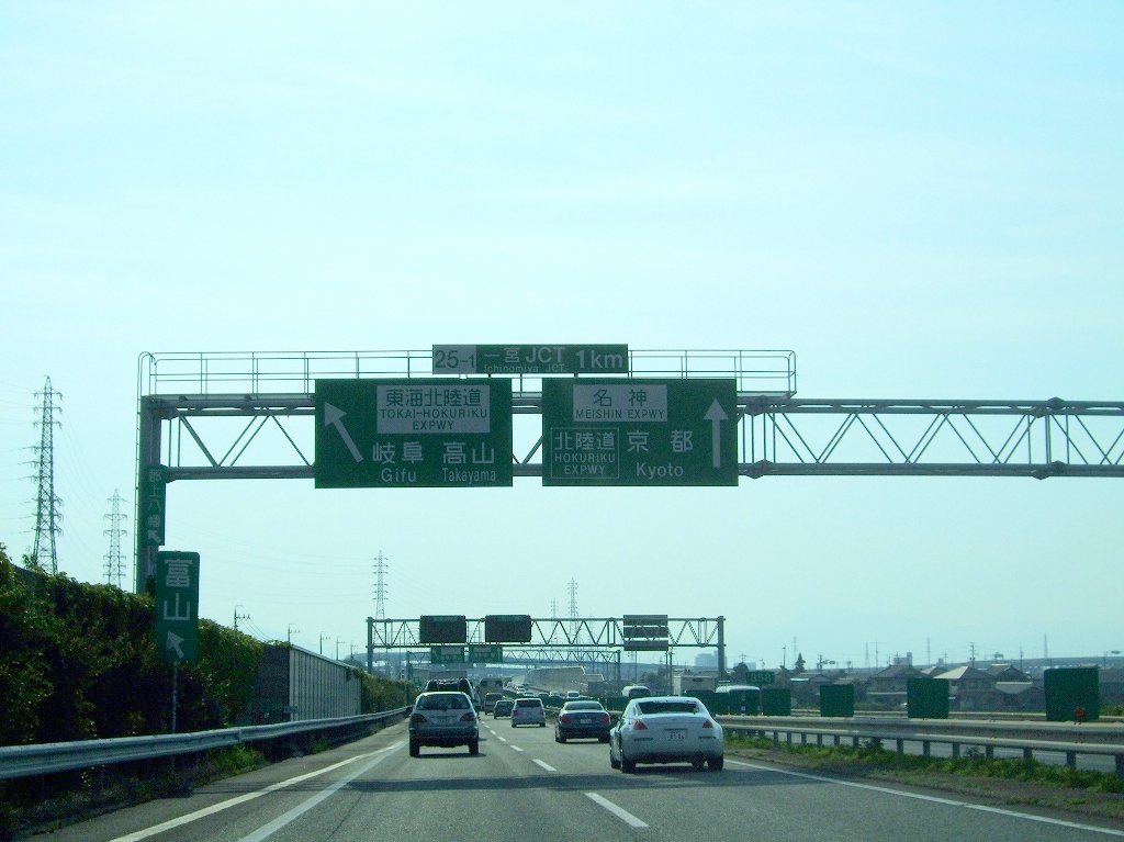 MEISHIN EXPRESSWAY Ichinomiya-JCT